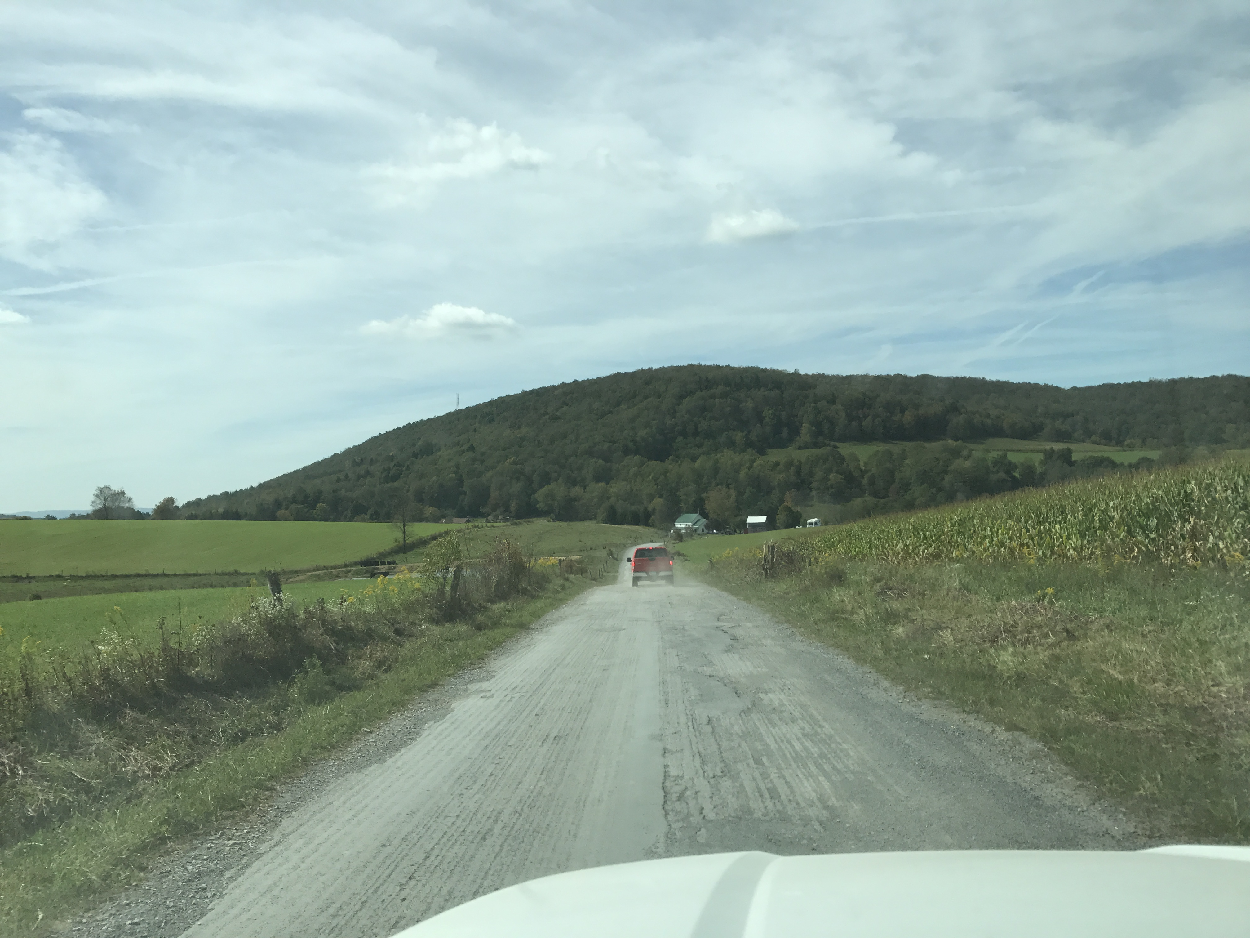 Buildings in Afton, WV as seen from Country Route 36 heading west towards County Route 28.